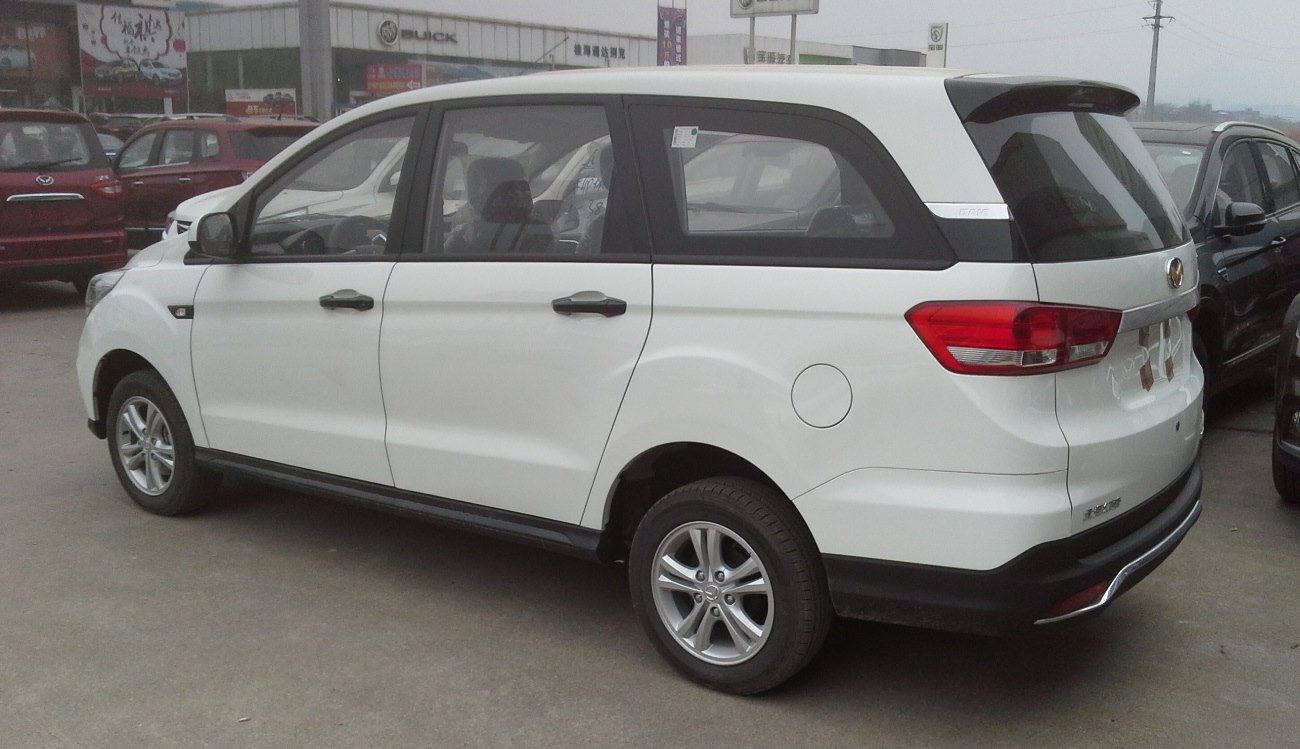 Huansu H3 photographed in Liuzhou, Guangxi province, China.